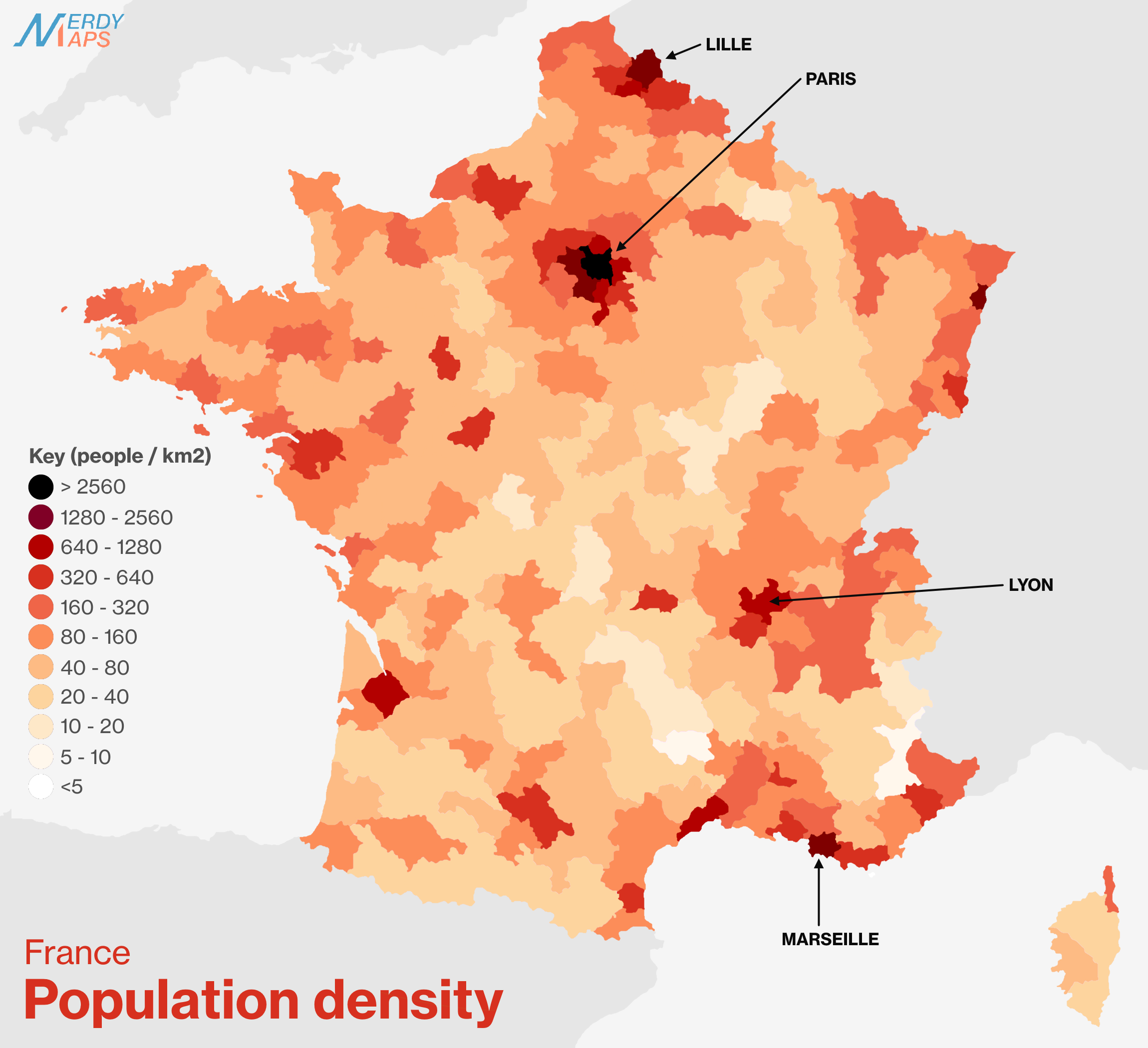 A map representing population density in France by arrondissement, as of 2017.